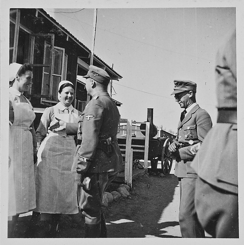 Image from "Photo Album from Terboven's journey to Nothern Norway and Finland 10–27 July 1942" (Mit dem Reichskommissar nach Nordnorwegen und Finnland 10. bis 27. Juli 1942), 375 images uploaded to www. by Riksarkivet (National Archives of Norway) 2012. See scanned album here